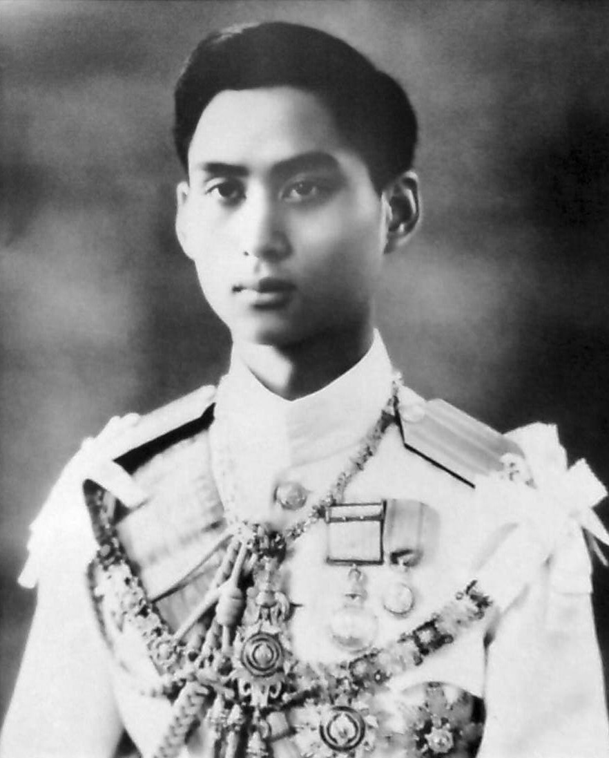 Portrait photograph of King Ananda Mahidol of Siam, now Thailand